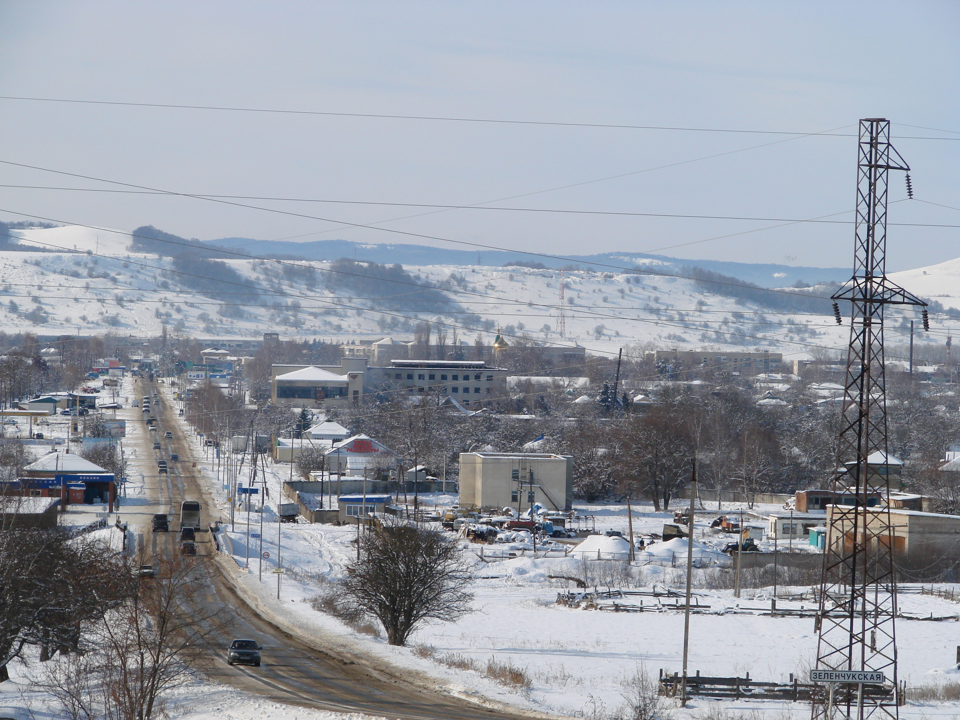 Zelenchuksky District, Karachay-Cherkessia, Russia